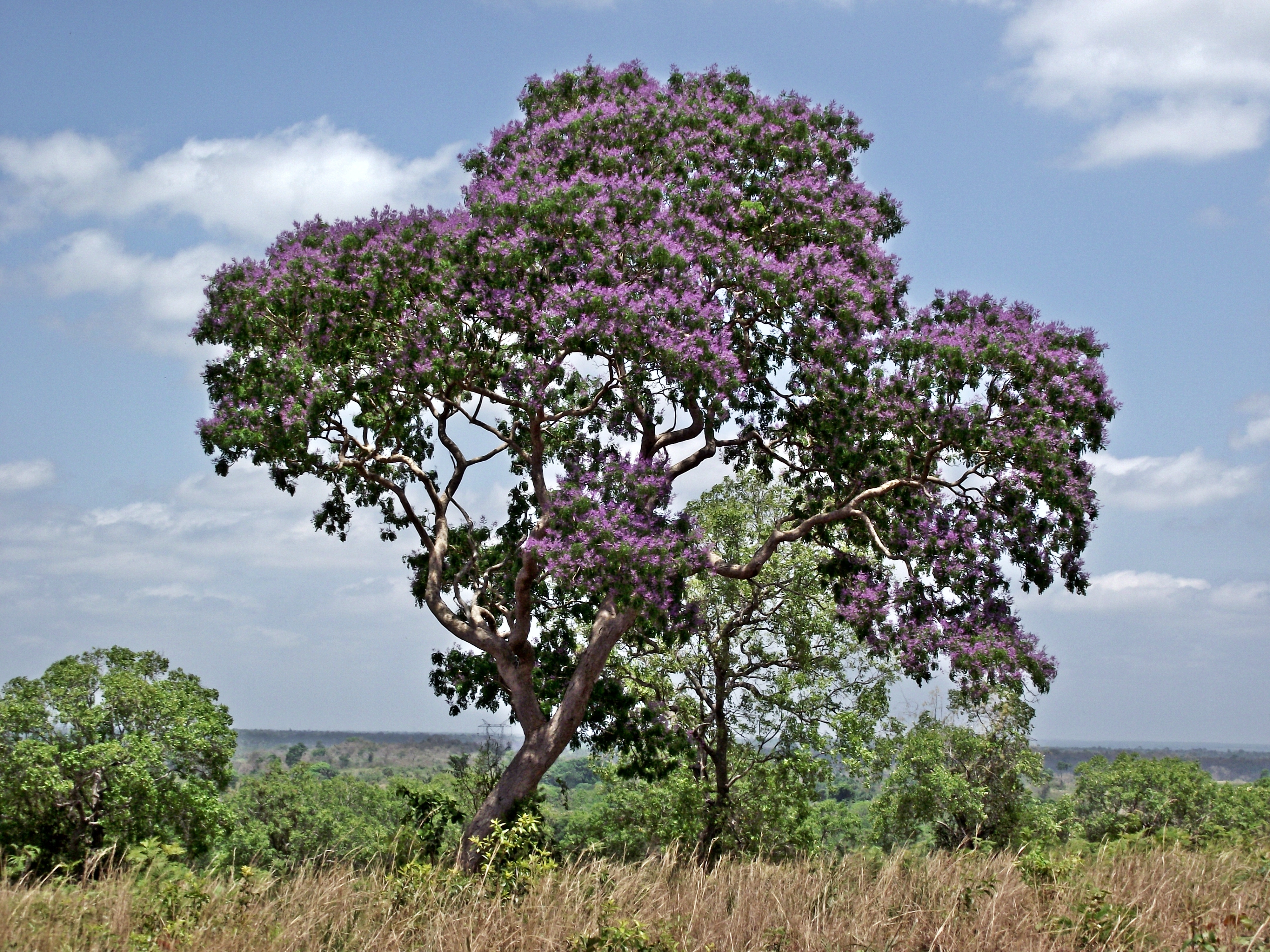 A tree sucupira in the savannah of Maranhão.